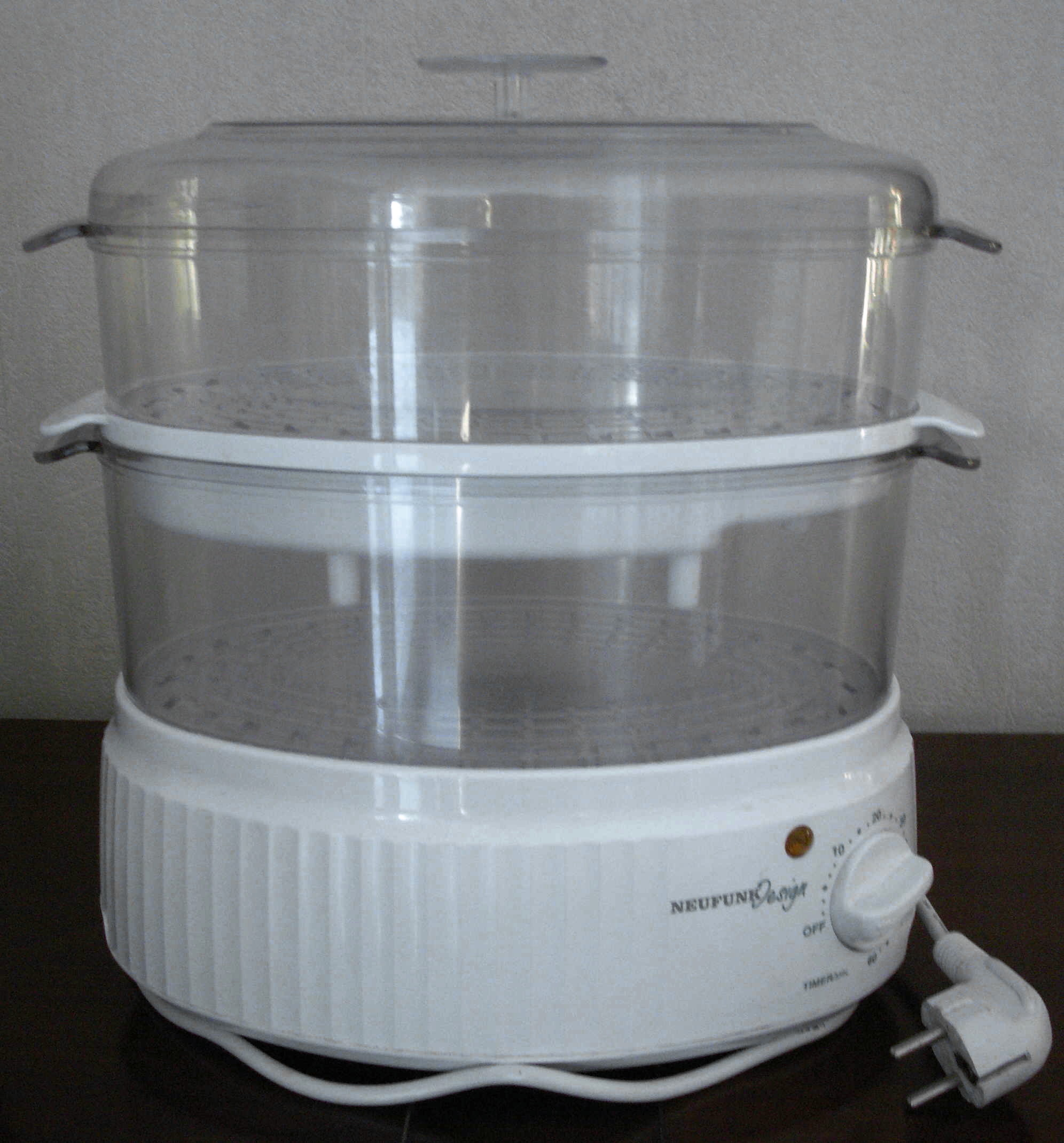 A steam cooker with juice-condensation catchment